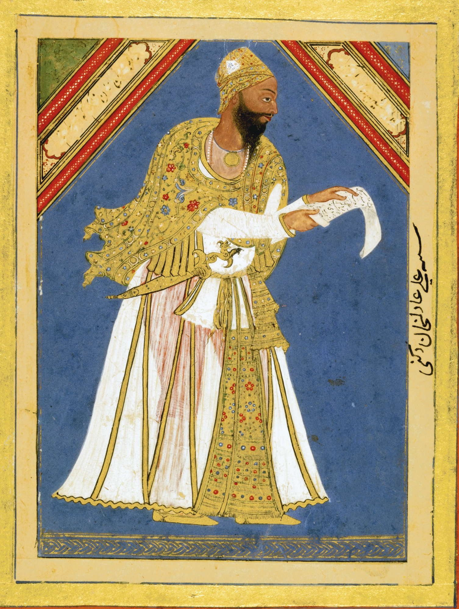 Sultan 'Ali 'Adil Shah of Bijapur (r.1557-79), India, Deccan, Bijapur, circa 1570